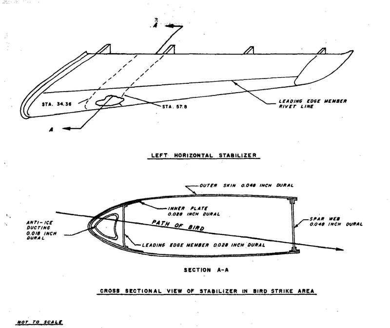 Drawing of the left horizontal stabilizer